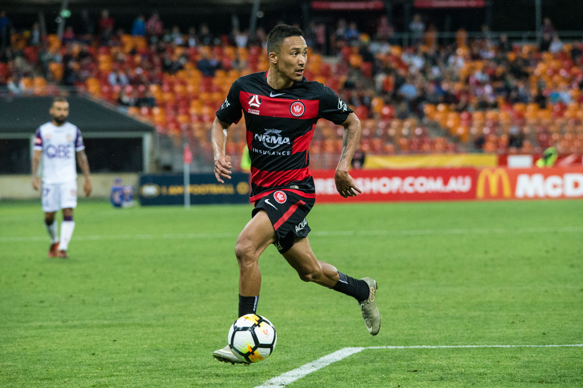 Kearyn Baccus playing for Western Sydney Wanderers Oct 2017